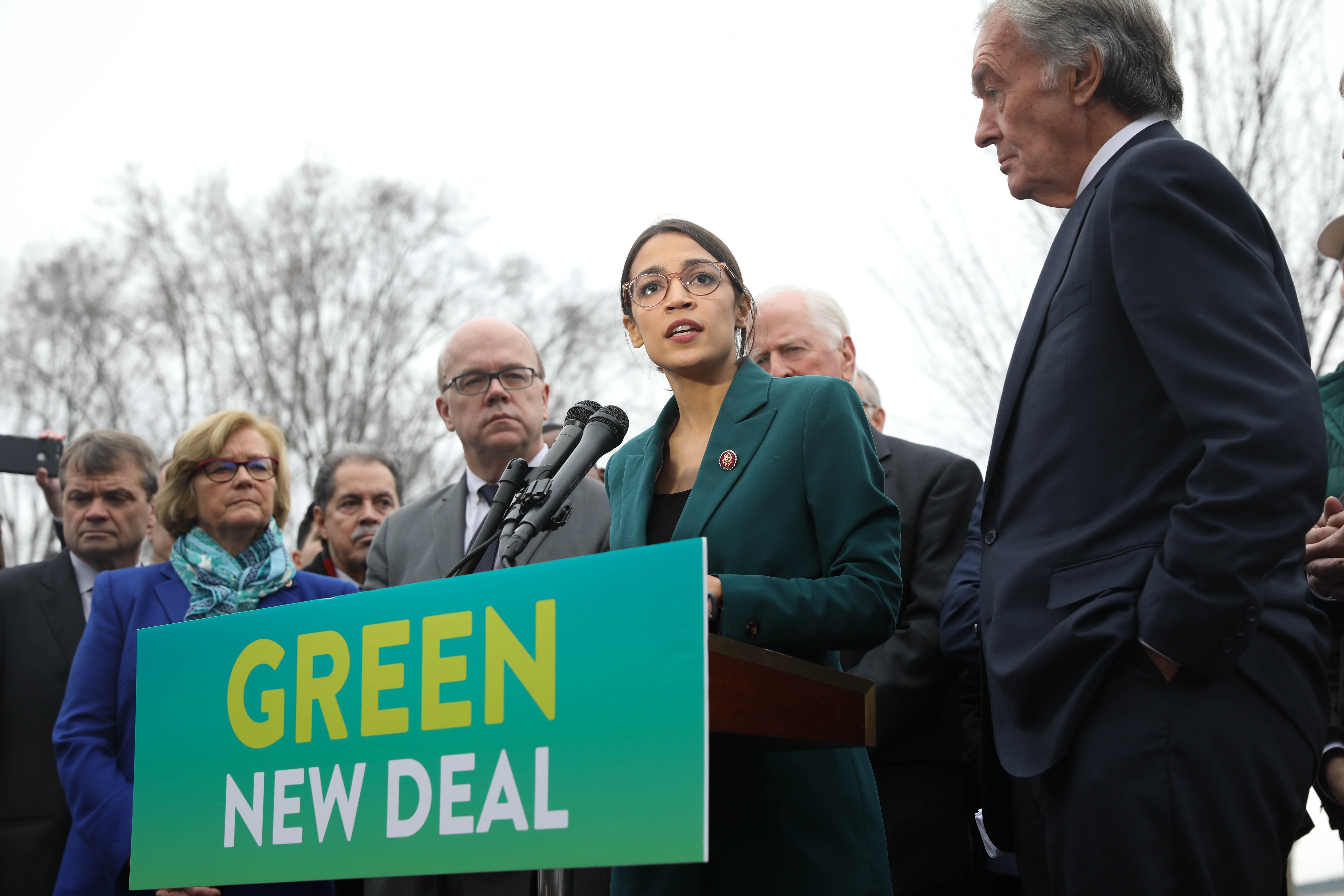 Representative Alexandria Ocasio-Cortez (center) speaks on the Green New Deal with Senator Ed Markey (right) in front of the Capitol Building in February 2019